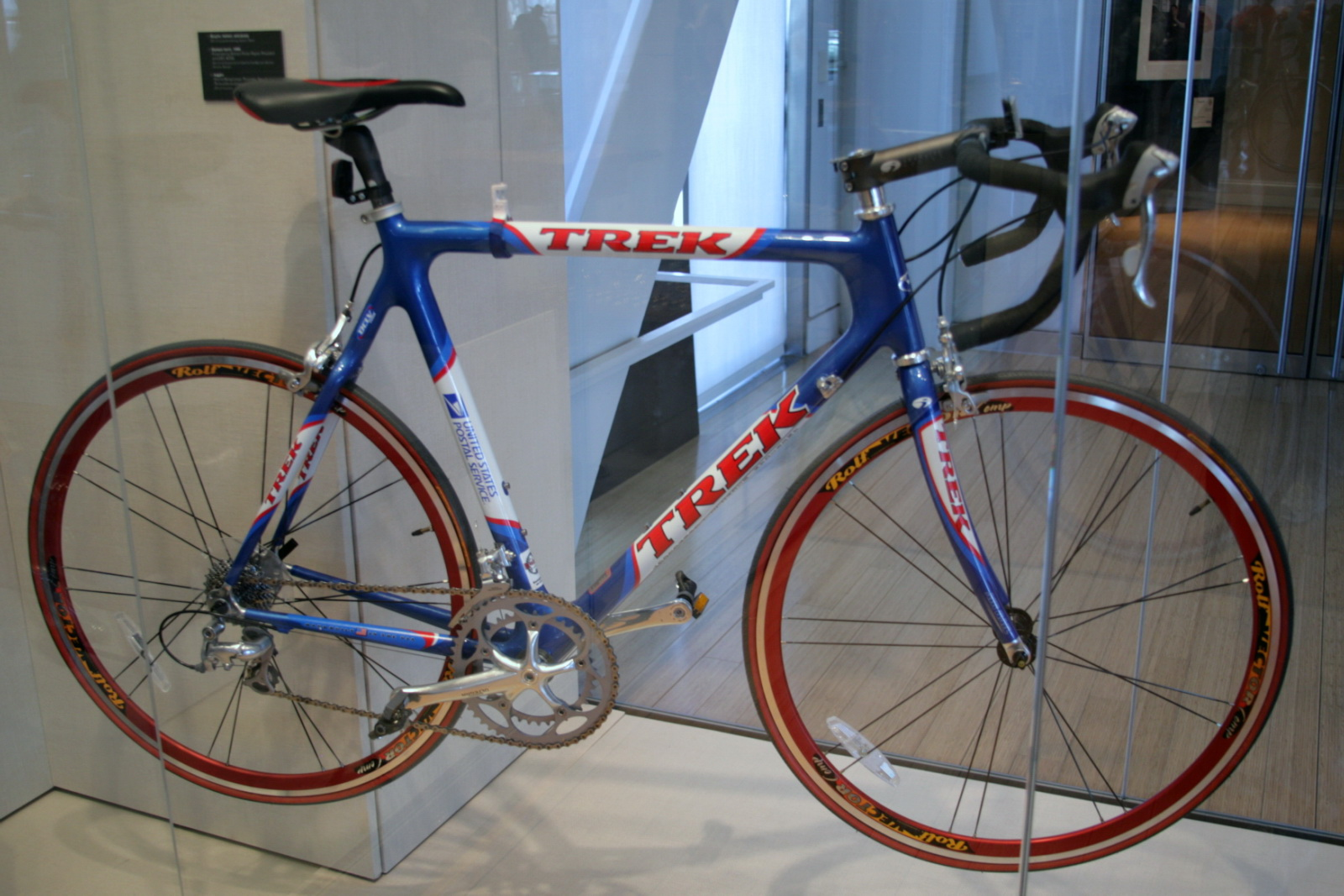 One of Lance Armstrong's bikes at the Clinton Presidential Library.